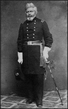 Photo of Thomas Jefferson McKean (1810-1870)